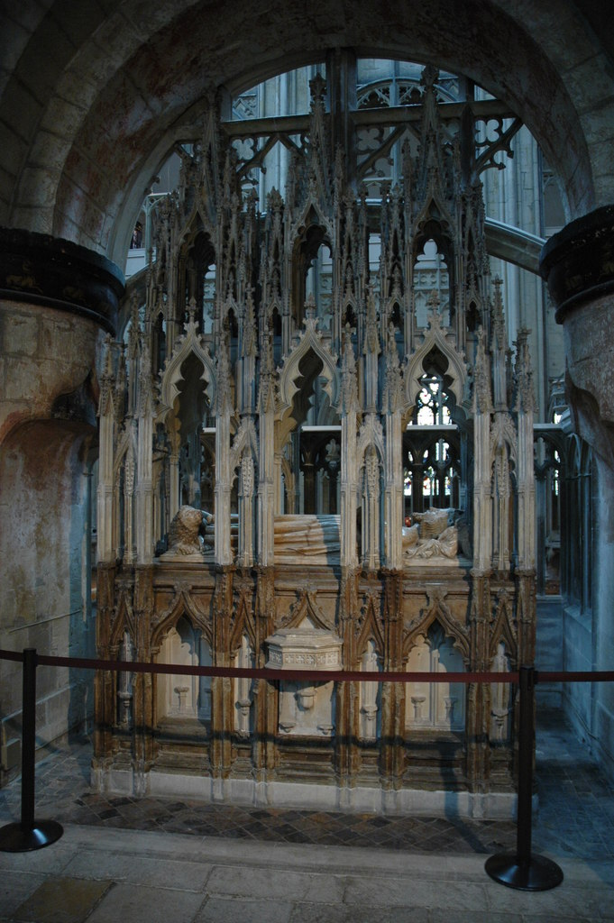 Tomb of Edward II